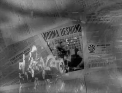 Screenshot taken by me (Icea) from the trailer to the movie Sunset Blvd.